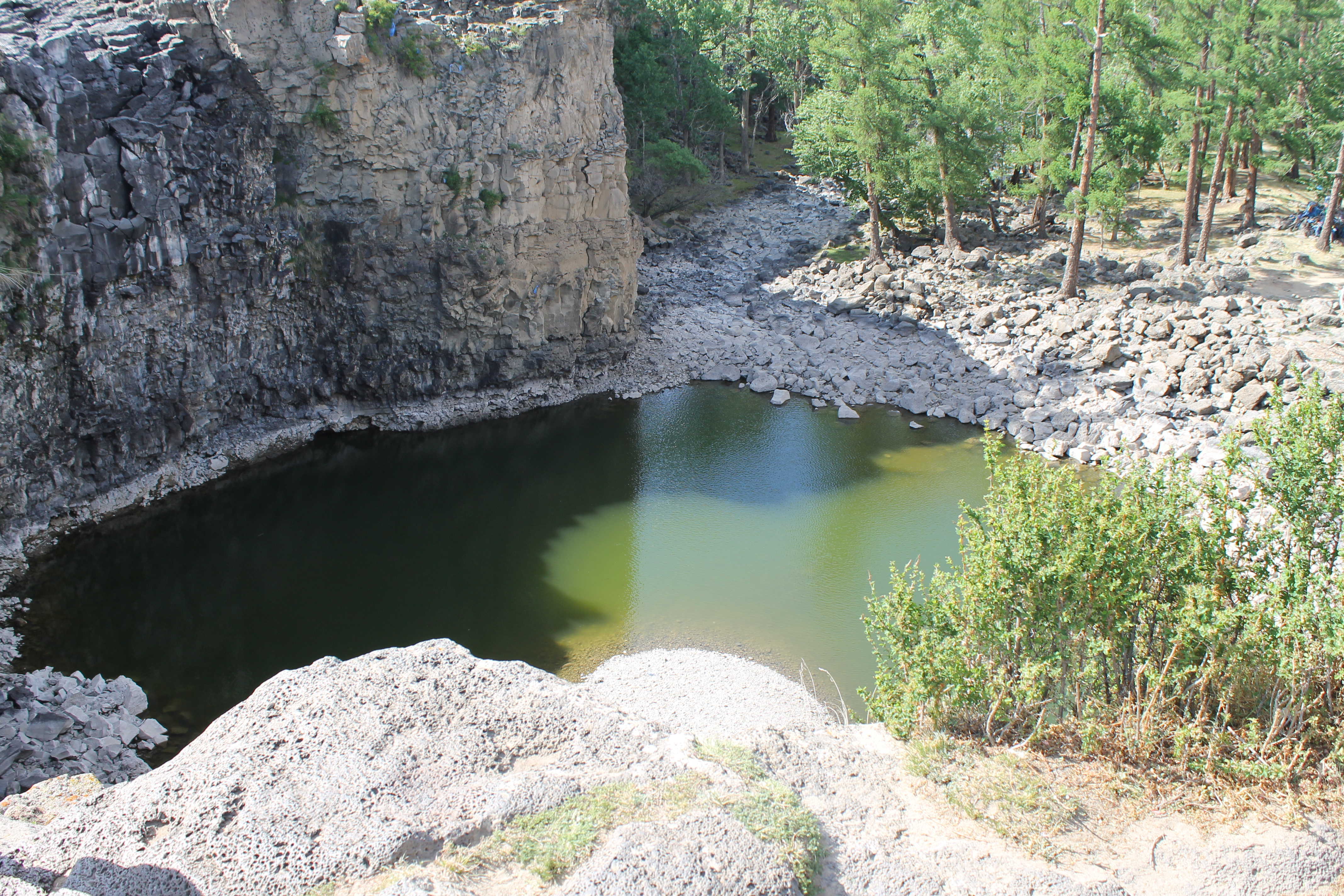 This was taken in mid June of 2013, it was very dry and this portion of the river had dried up.